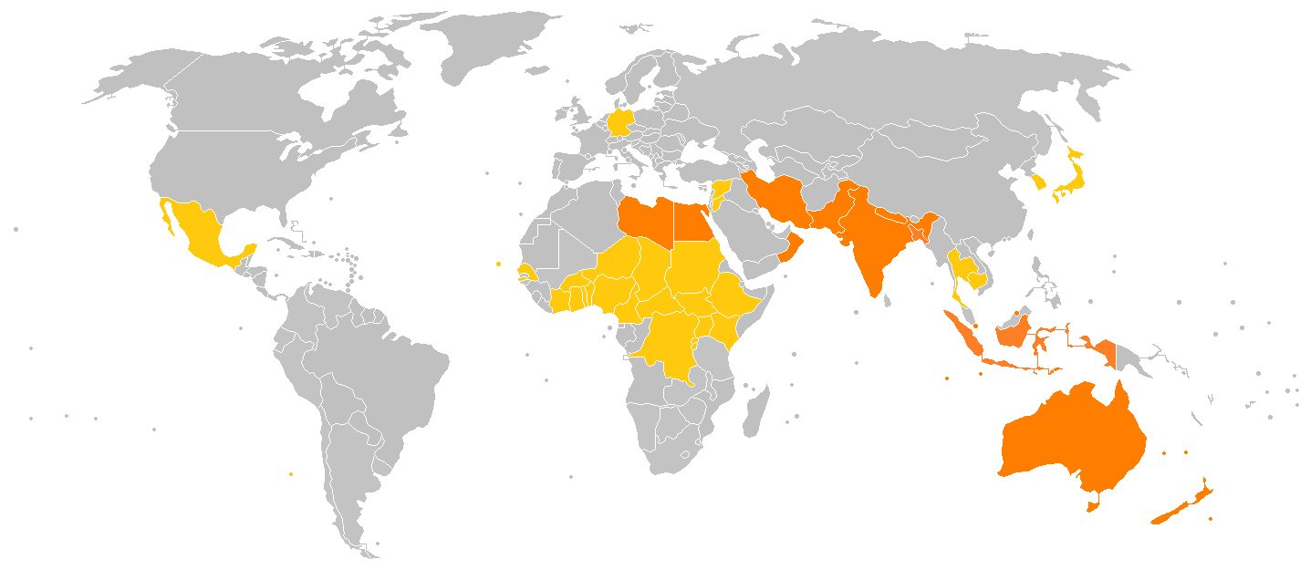 Carnet de Passage requirements Other information